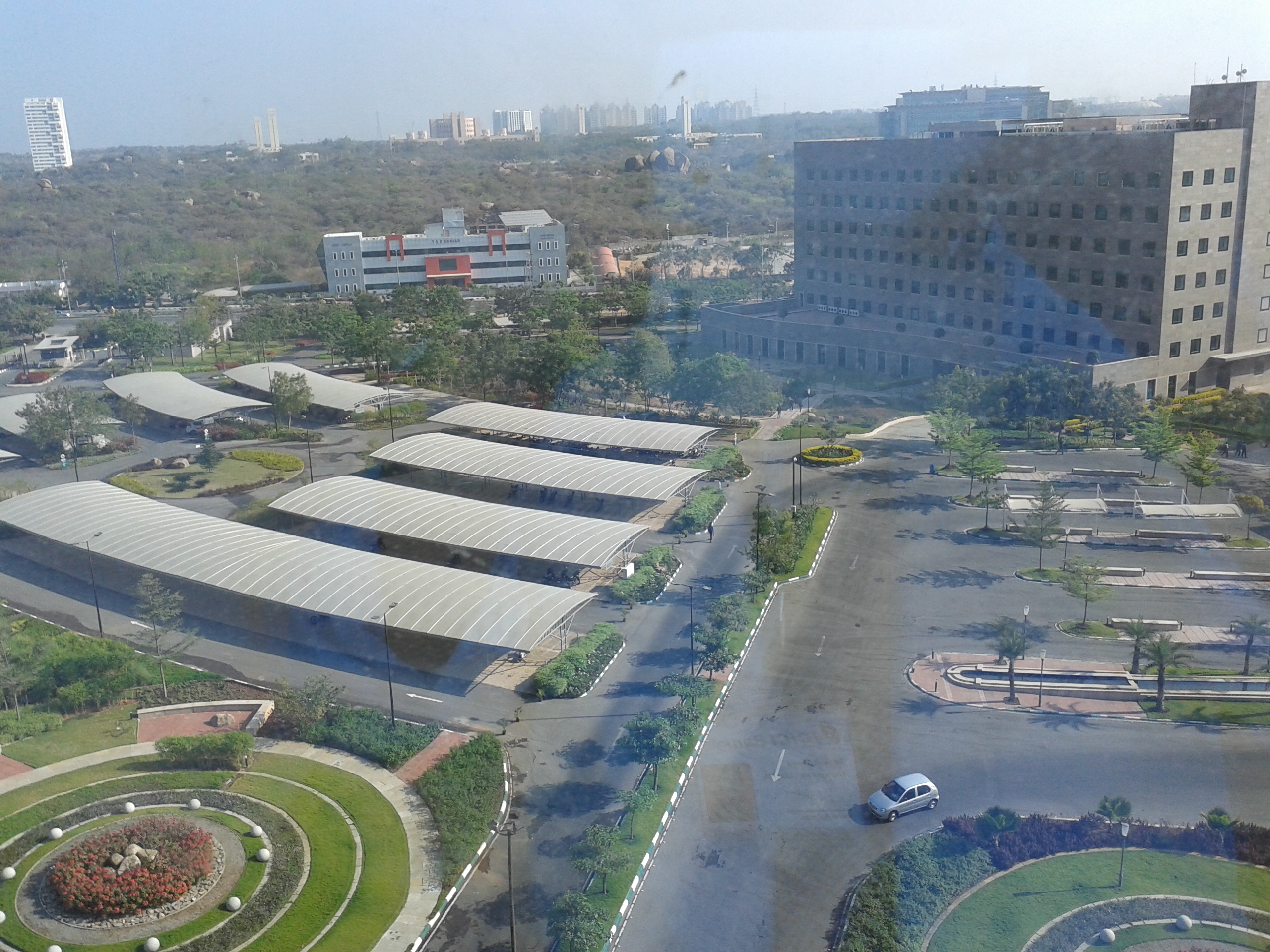 Sky Line of Gachibowli